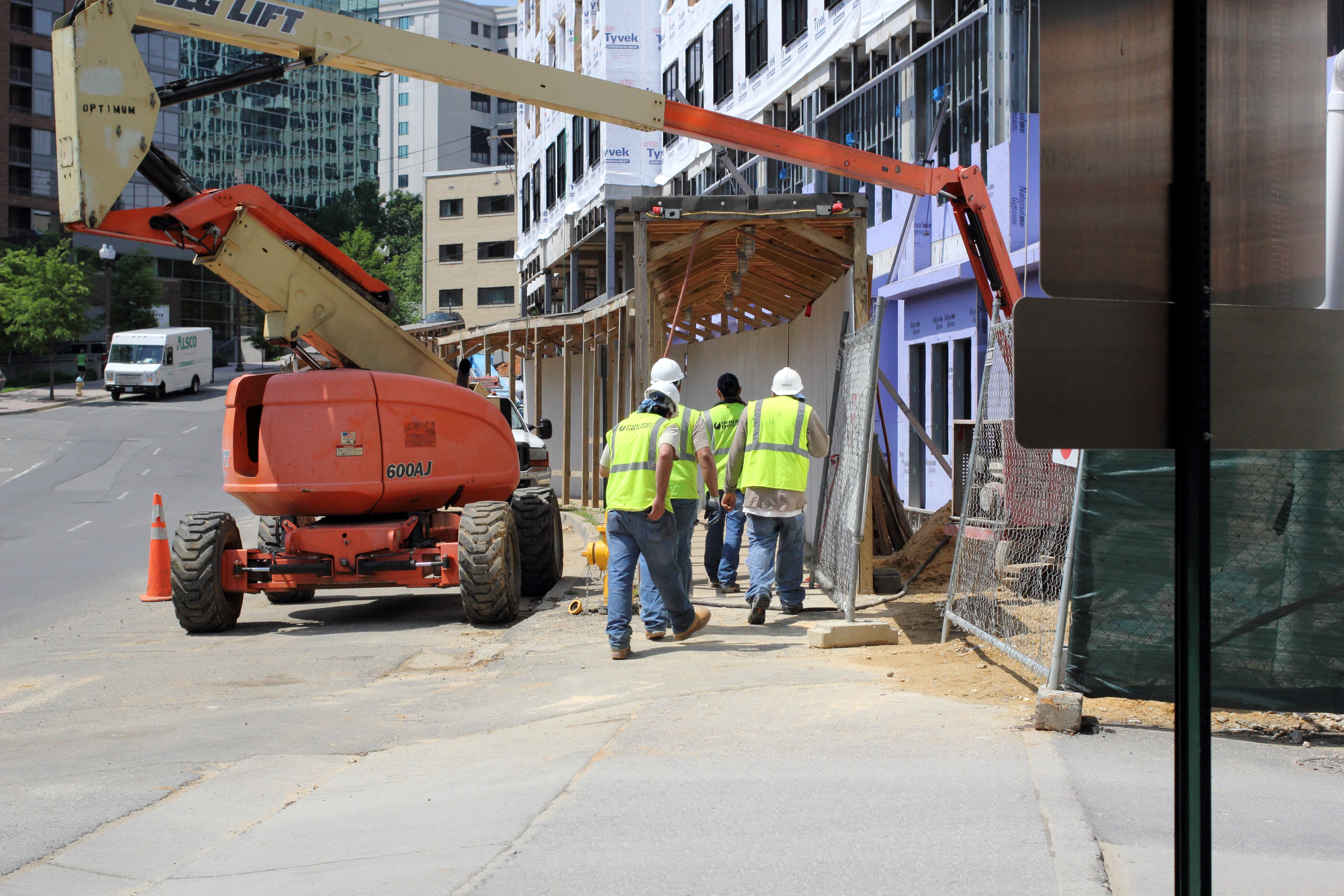 Construction workers